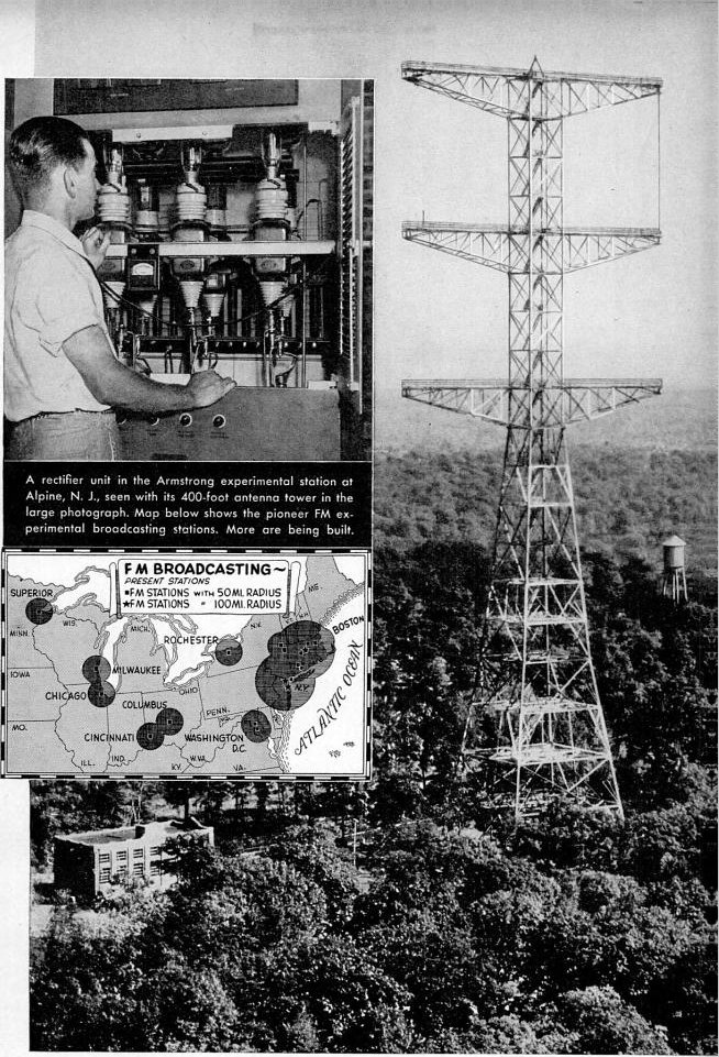 First broadcast FM radio station W2XMN built by Edwin Armstrong in 1938 in Alpine, New Jersey, USA. The insets show a portion of the transmitter, and a map of Armstrong's network of FM stations in 1940.